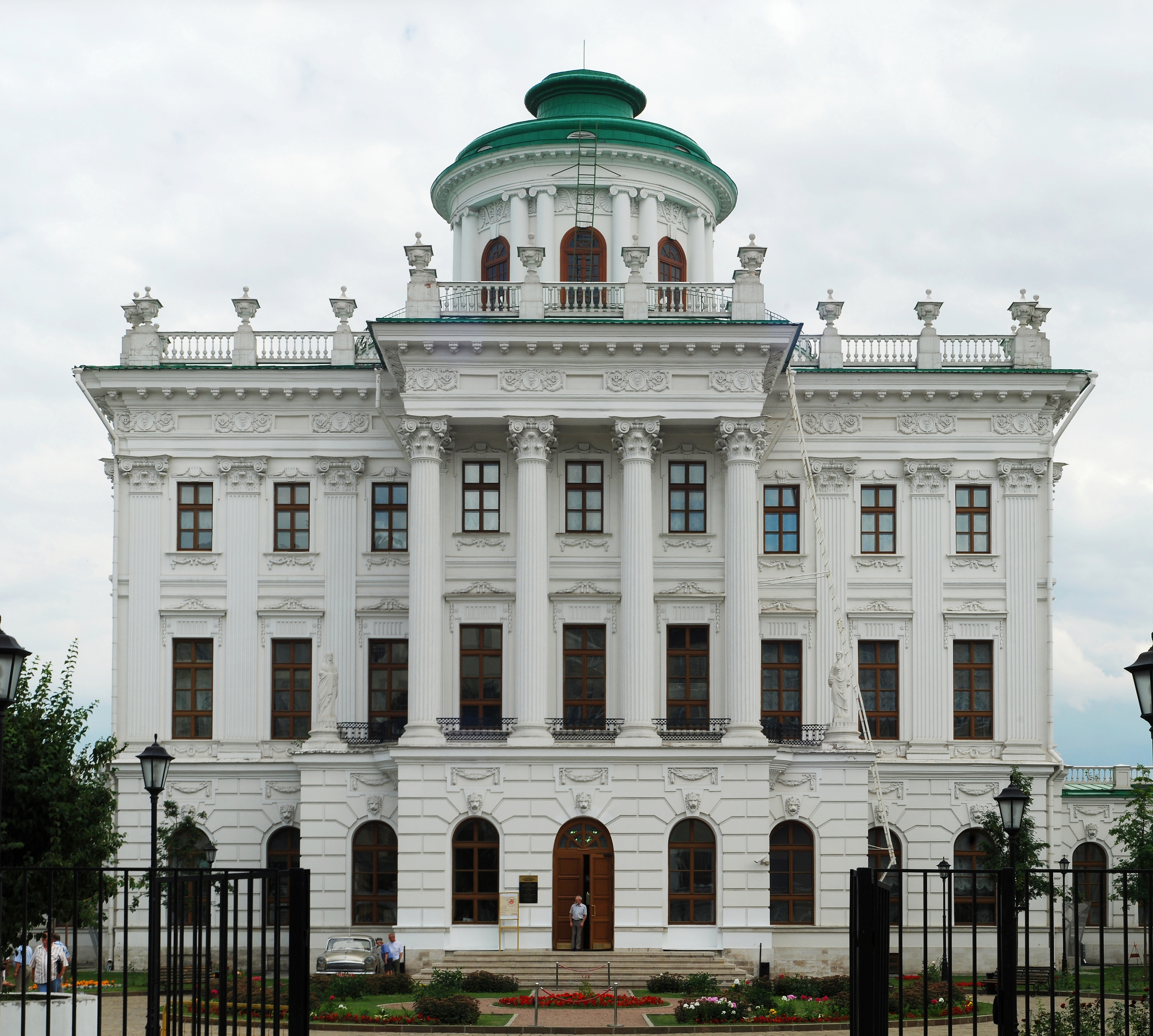 Pashkov House (back), Moscow